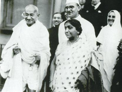 Gandhi in London with Sarojini Naidu at his side, Mahadev Desai behind her, and Mirabehn (Madeleine Slade) to the right.